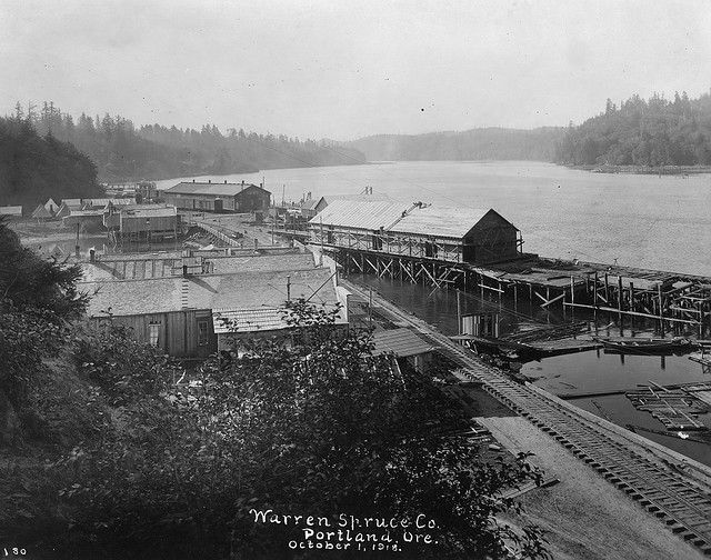 Establishments of the Spruce Production Division surrounding the Spruce Railroad, or Spruce Production Division Railroad